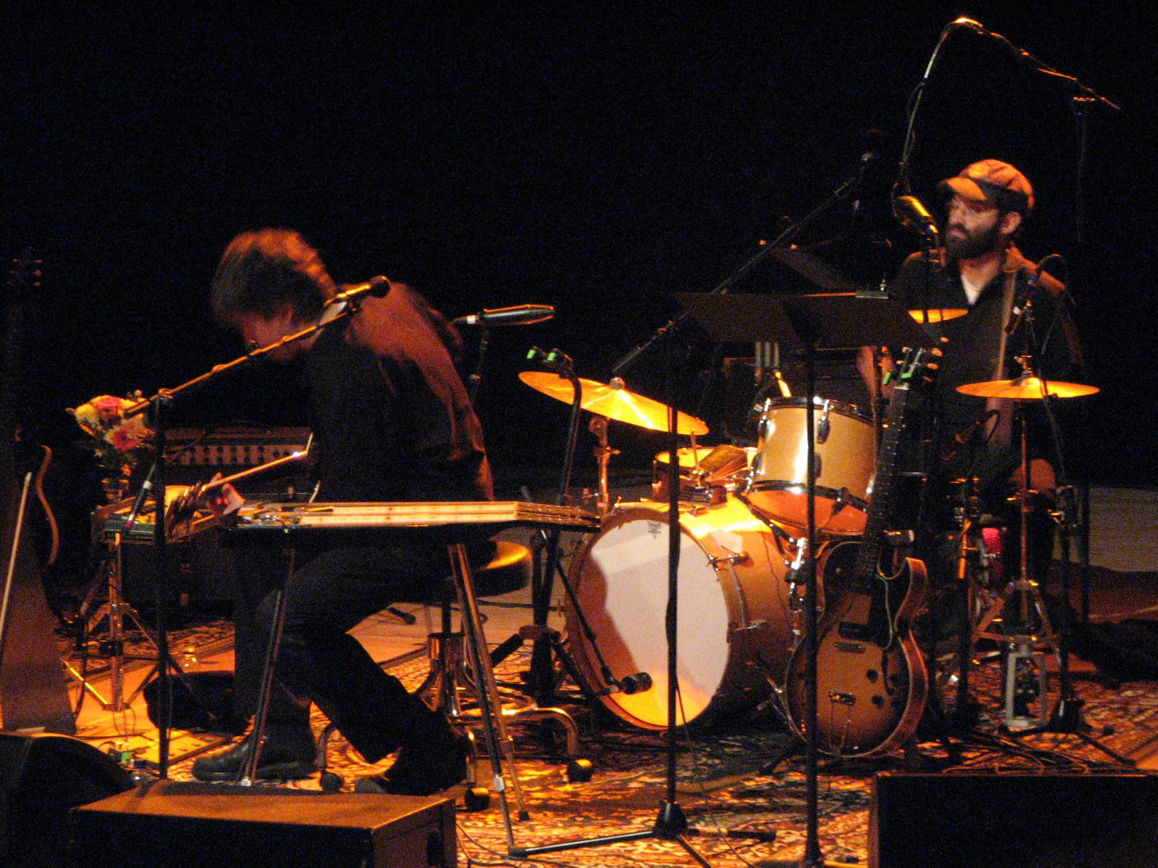 Eels at Birmingham Town Hall 26 February 2008.